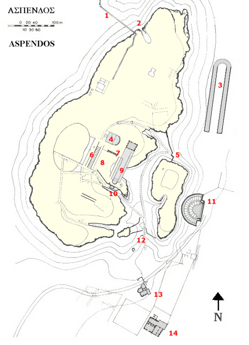 Drawing of the ancient city of Aspendos. 1 Aquaeduct, 2 Door to the north, 3 Stadium, 4 Bouleuterion, 5 Door to the east, 6 Markethall, 7 Nymphaion, 8 Agora, 9 Basilika, 10 Exedra, 11 Theater, 12 Door to the south, 13 Bath, 14 Gymnasion